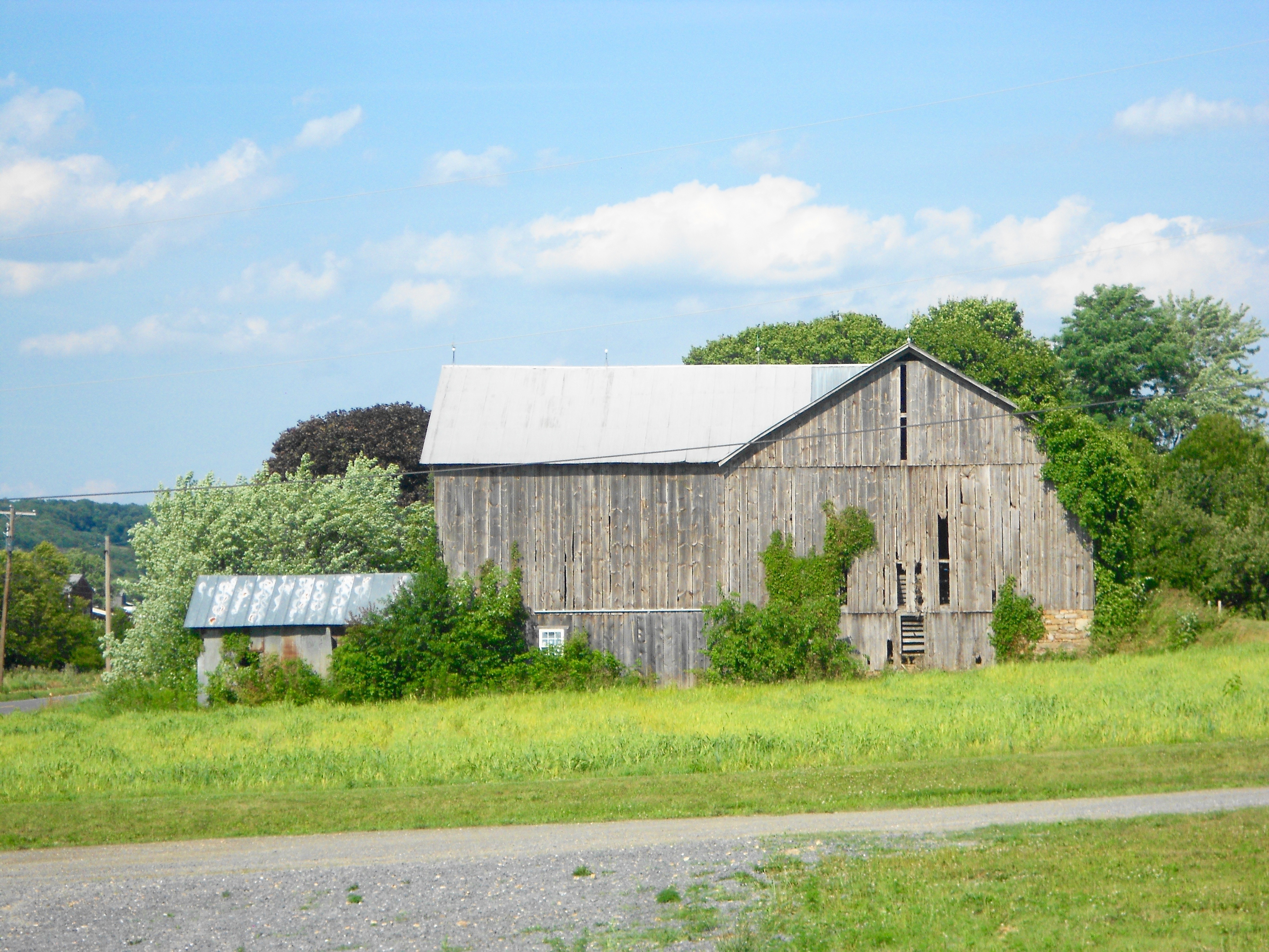 Dilapidated barn in West Perry Township, Snyder County, Pennsylvania. This part of the county is south of the mountain that separates it from the rest of the county. Near Richfield, PA